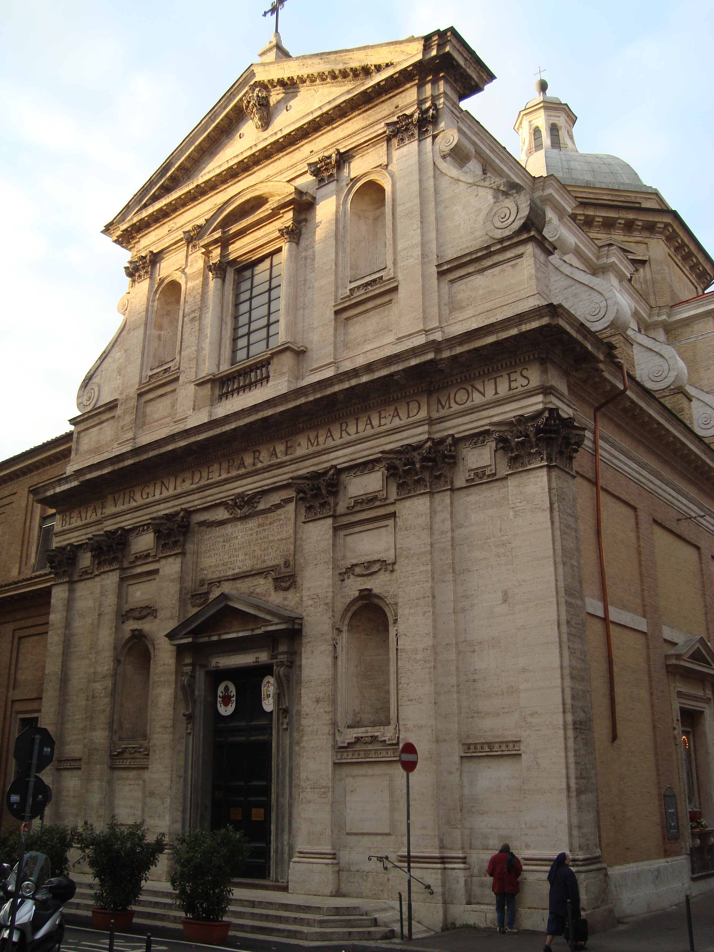 Church Santa Maria ai Monti in Rome